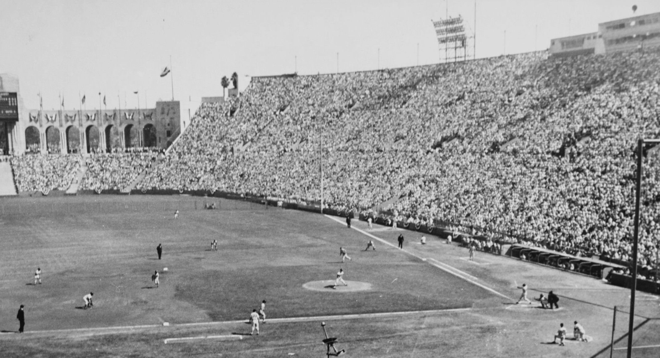 The 1959 World Series between the Los Angeles Dodgers and the Chicago White Sox at Los Angeles Memorial Coliseum.